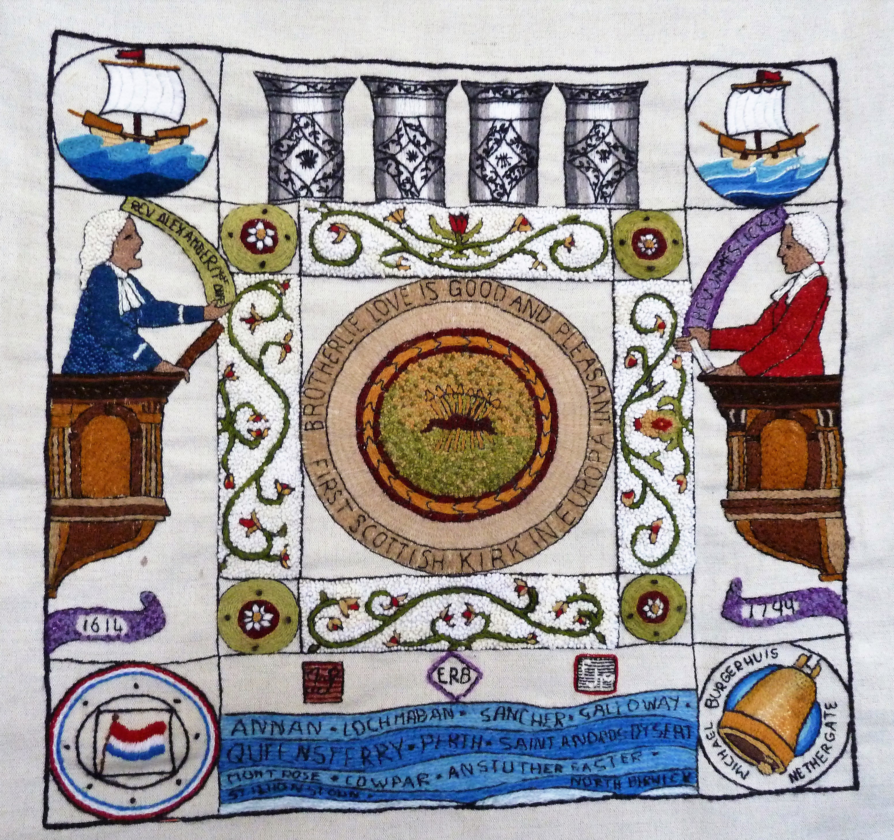 The stitched panel returned to the Scottish Diaspora Studio at Cockenzie House, Cockenzie, Scotland, stretched and waiting to be rebacked like the others ready for hanging. The panel was stitched in the Netherlands by Ilse Loos-Simpelaar, Patricia Quist, Ellen Rijkse-Bliek, Ineke van der Gruiter, Elisabeth Dolleman, Dorothée Sybenga.